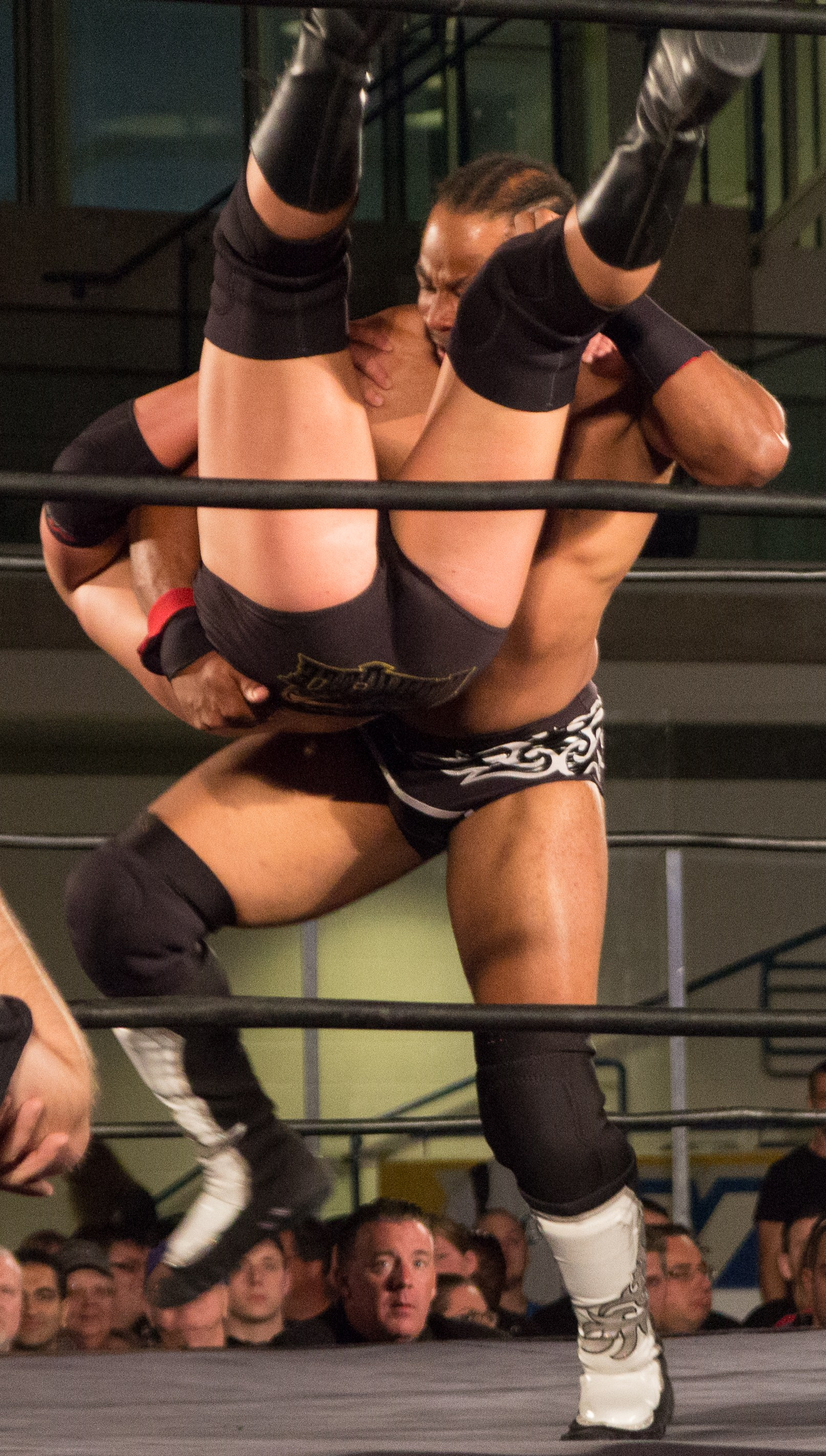 Wrestler Jay Lethal doing a backbreaker on Adam Cole at a Ring of Honor event at the Mattamy Athletic Centre in Toronto, ON